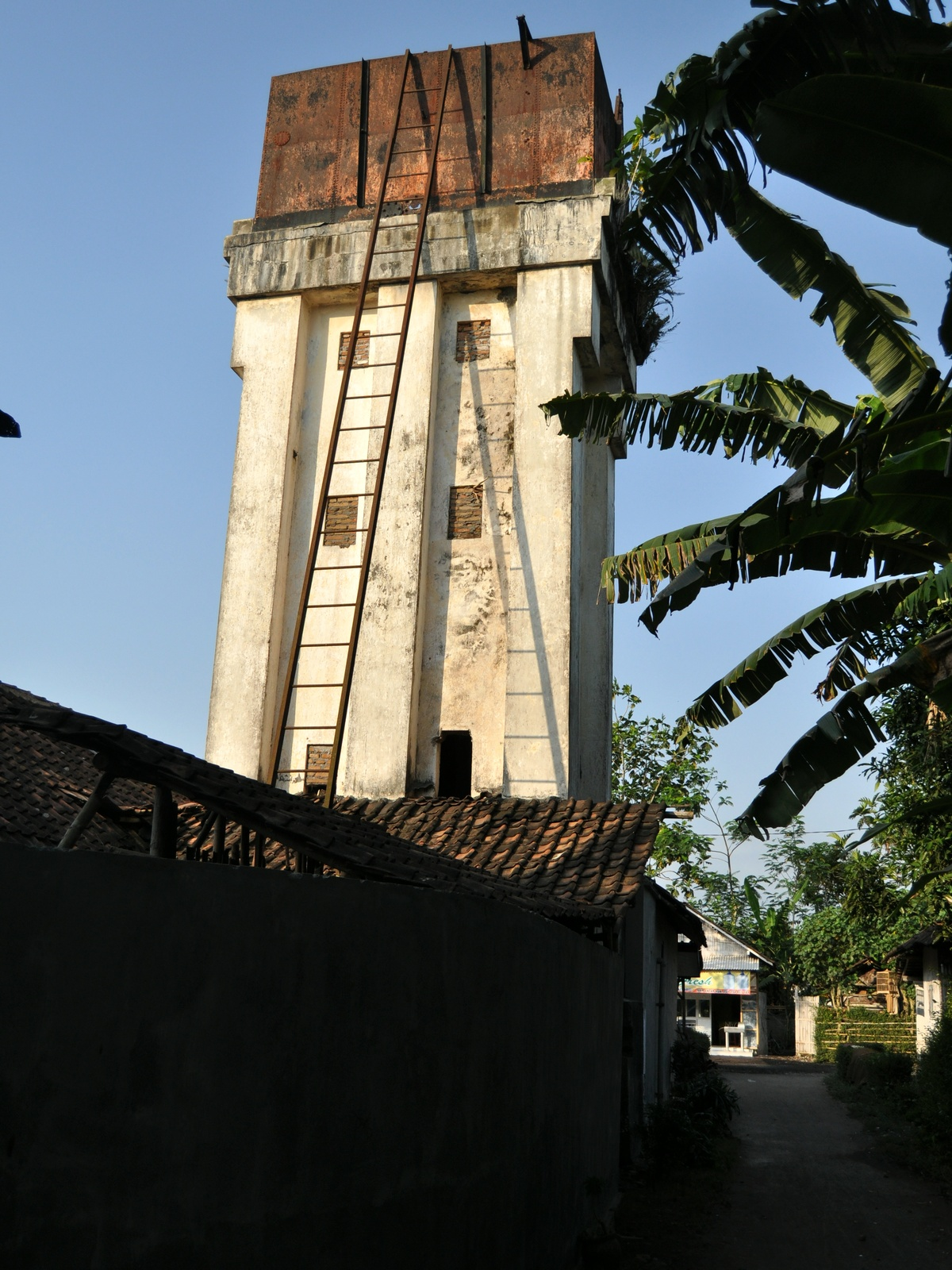 Ex Yosowilangun train station, closed since 1986, in Lumajang, East Java, Indonesia. Water tower for steam locomotives.